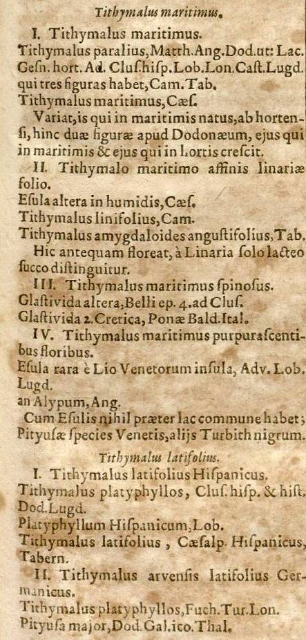 Caspar Bauhin (1623), Pinax Theatri Botanici, page 291 (part). On this page, a number of Tithymalus species (now Euphorbia) is listed, described and provided with synonyms and references. Bauhin already used binomial names but did not consistently give all species throughout the work binomials.